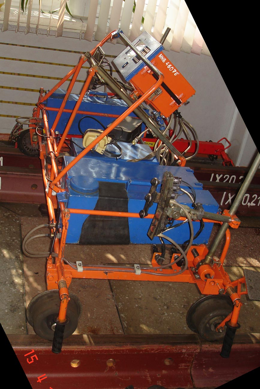 rail ultrasonic testing